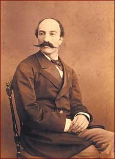 Image of Petre P. Carp (1837 - 1919), Romanian politician, leader of the Conservative Party, Prime Minister 1900-1901, 1911-1912